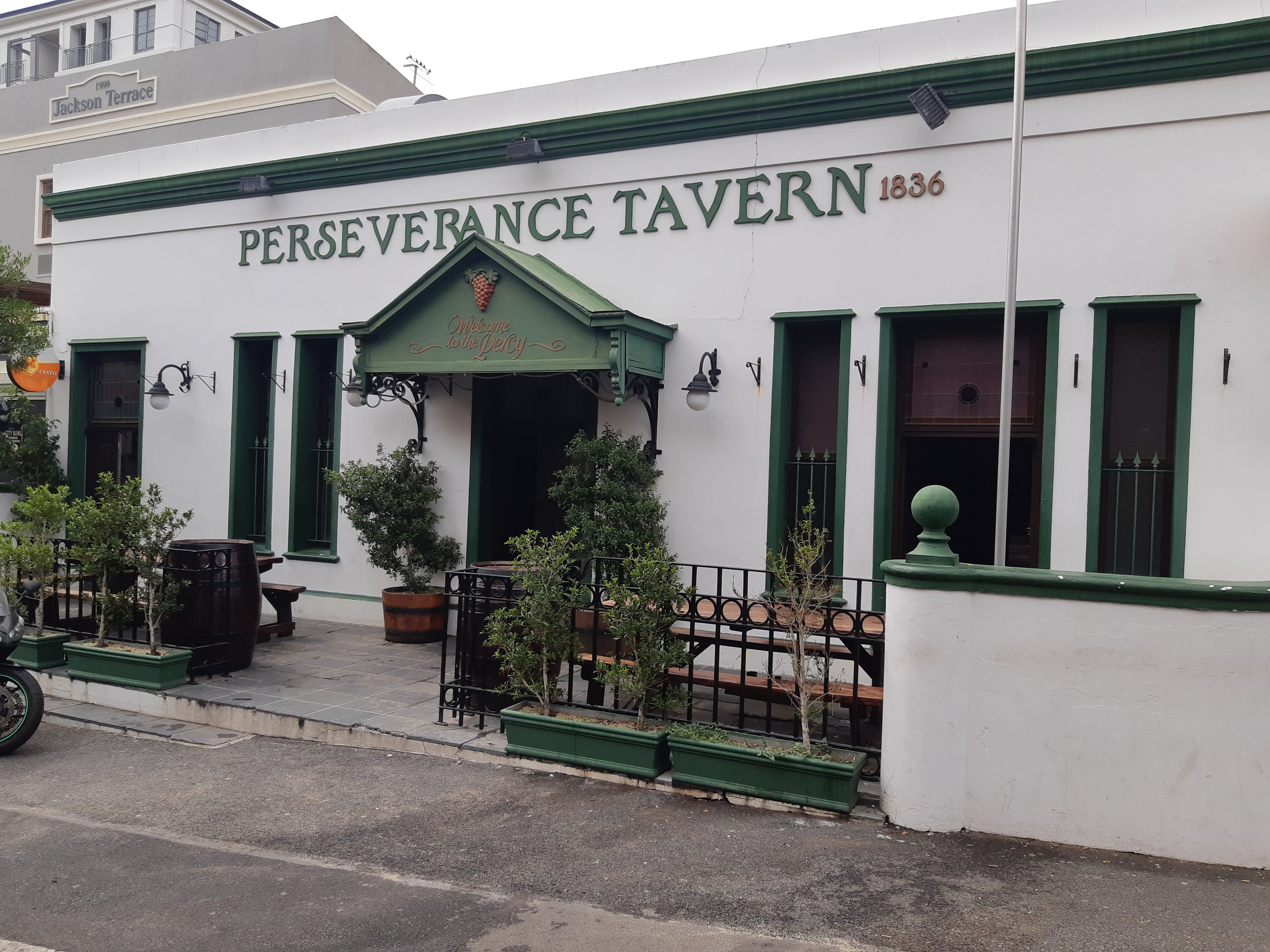 This media shows a South African Protected Site with SAHRA file reference 9/2/018/0246. Perseverance Tavern, 83 Buitenkant Street, Cape Town. Taken a few months before its closure on 22 July 2020. At the time of its closure it was notable for being the oldest pub in South Africa having opened in 1808.